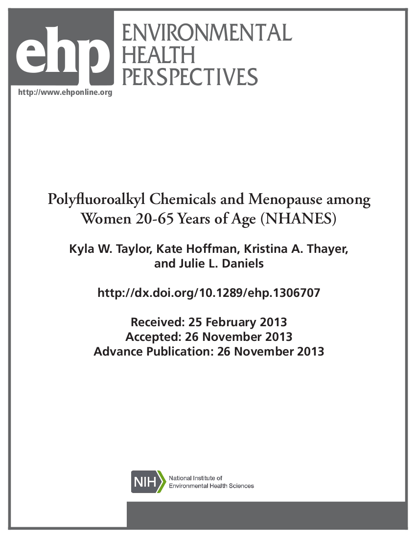 Pre-publication coverpage for an article from the EHP journal, extracted from the PDF. (Coverpages of the actual journal all seem to have copyrighted images on them, hence unfree for our purposes here).